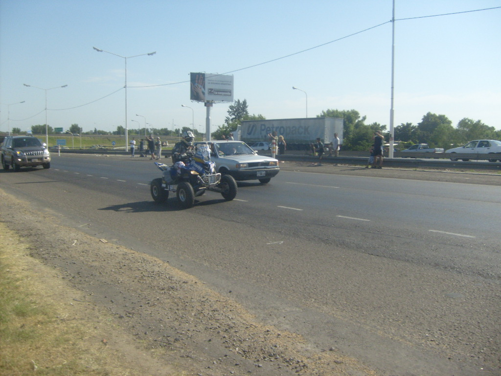 moldes in jose marmol, Argentina. Stage 13